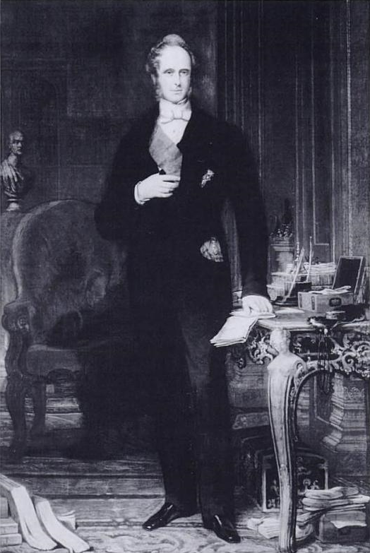 Lord Palmerston.